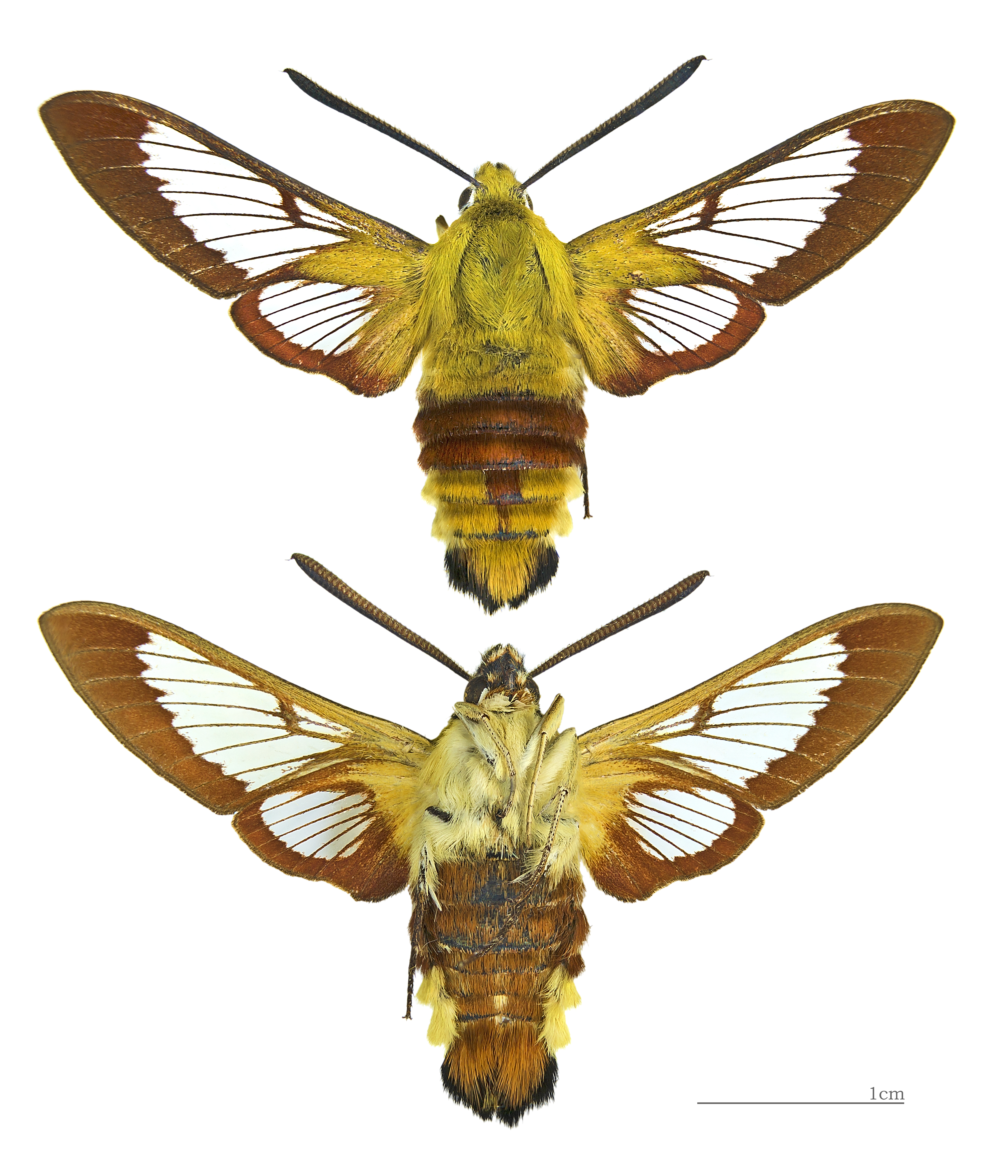 Broad-bordered Bee Hawk-moth - Two views of same specimen